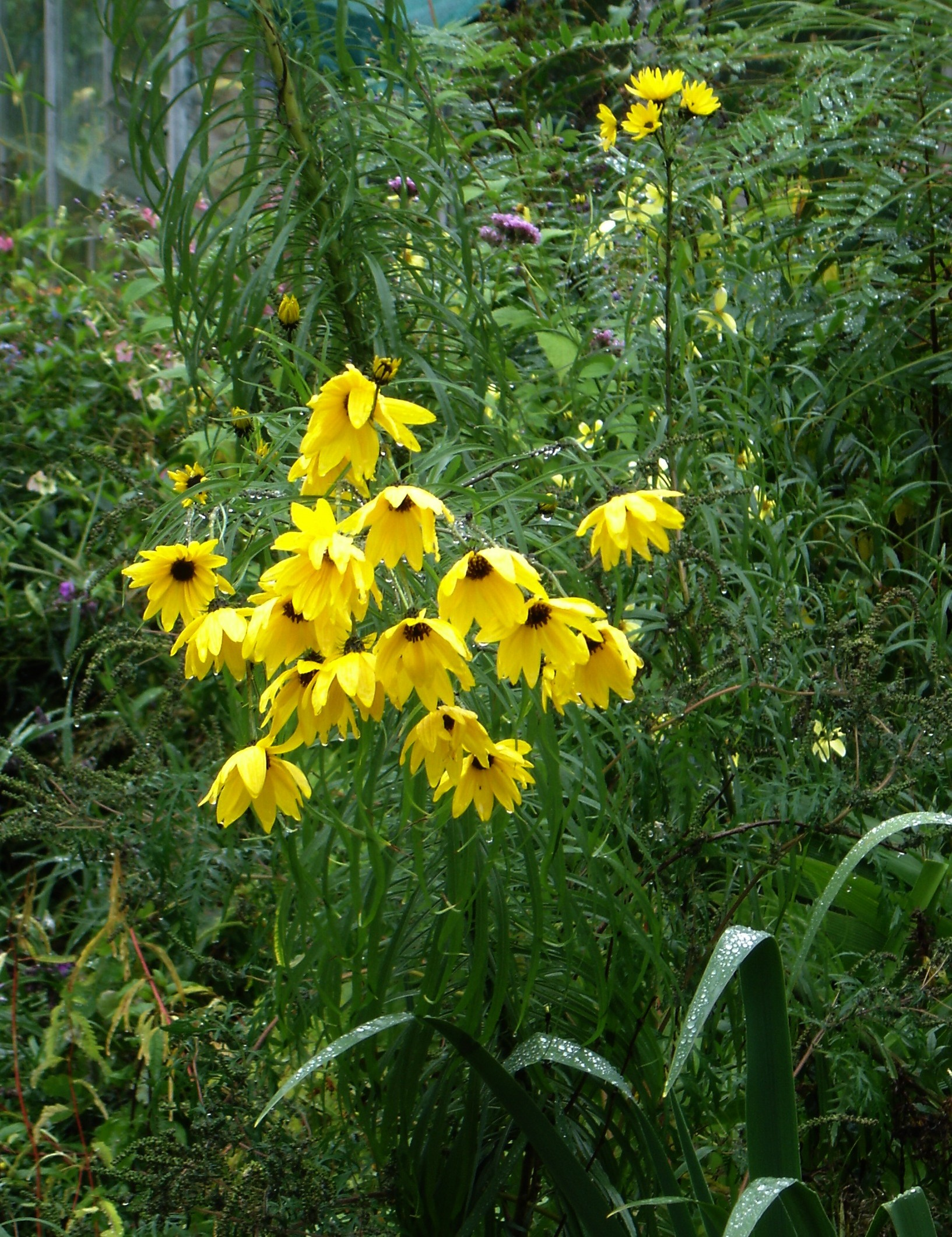 Helianthus salicifolius